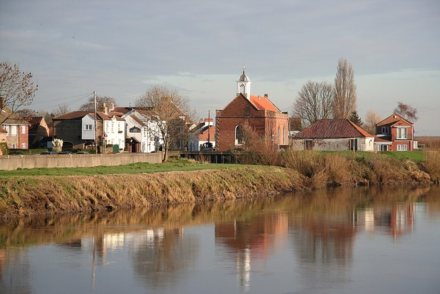 West Stockwith View across the River Trent from East Stockwith